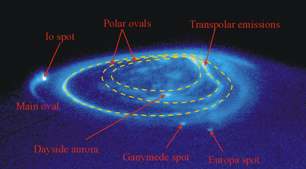 Jupiter's aurorae in November 1998. The image made by HST. The main auroral oval and polar ovals are marked with dash lines. Satellite spots and other features are also shown. (Based on Palier, Laurent (2001). "More about the structure of the high latitude Jovian aurorae". Planetary and Space Sciences 49: 1159–73.